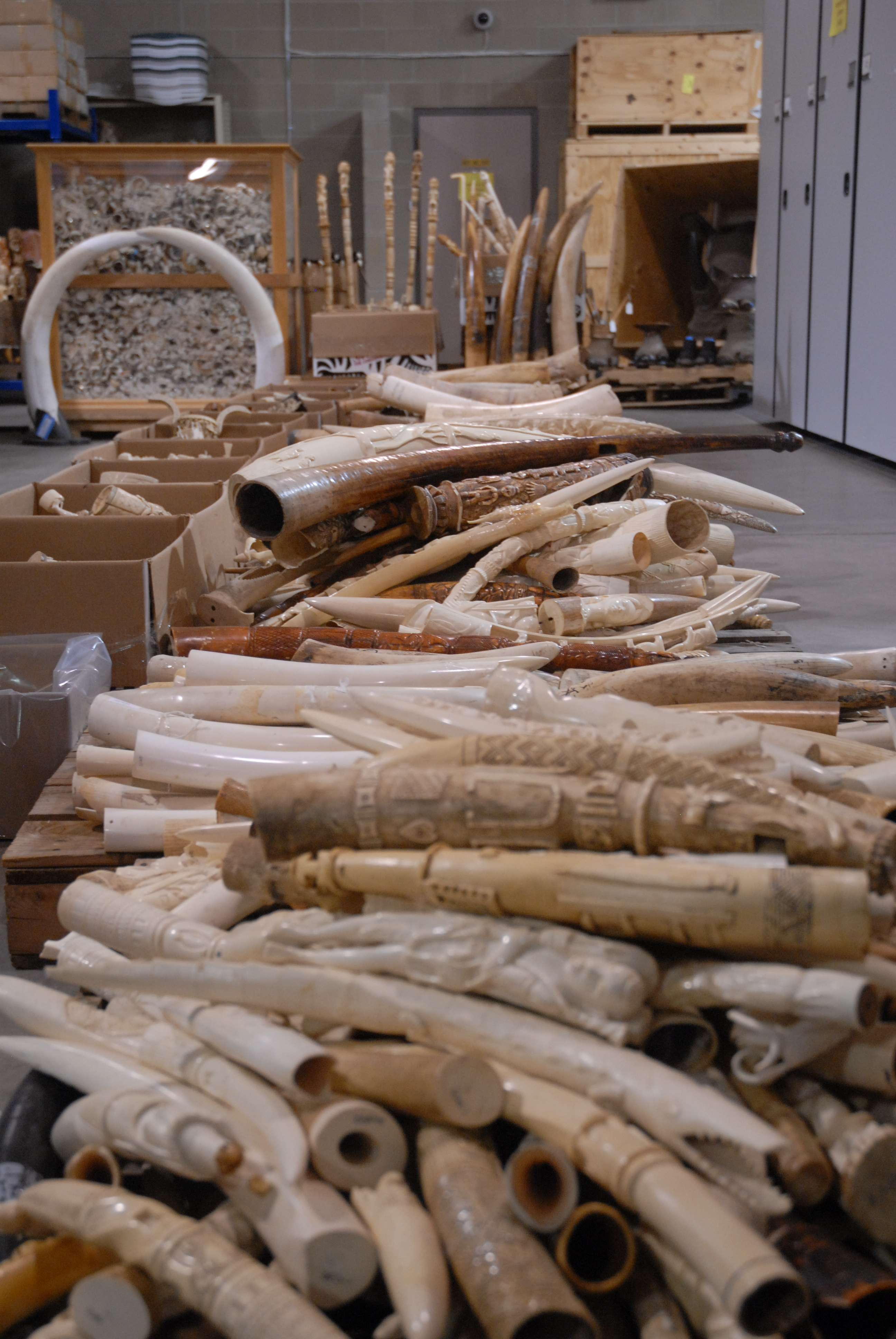 Photo Credit: Gavin Shire / USFWS USFWS ivory crush at Rocky Mountain Arsenal National Wildlife Refuge on November 14, 2013